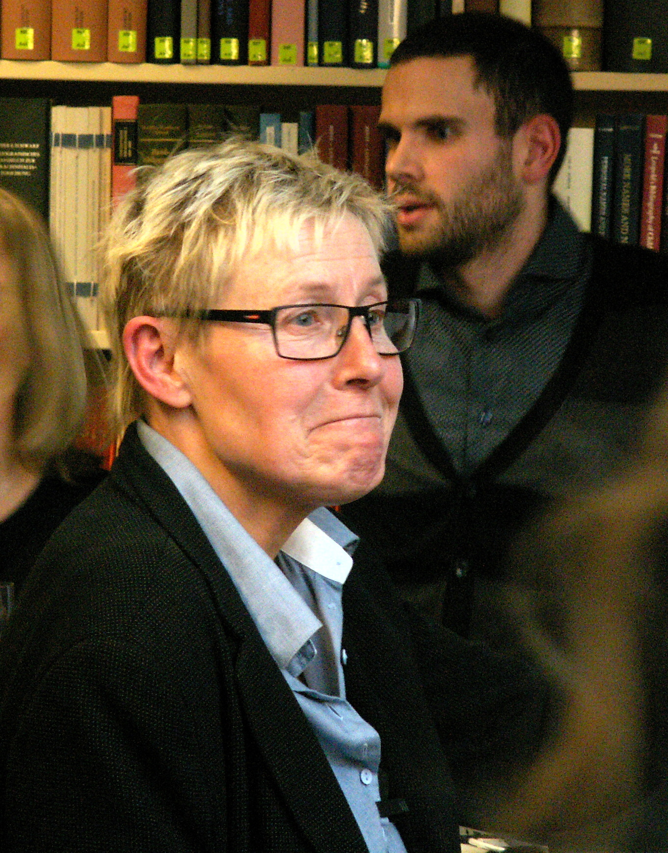 Maria Sjöberg, historieprofessor vid Göteborgs universitet.